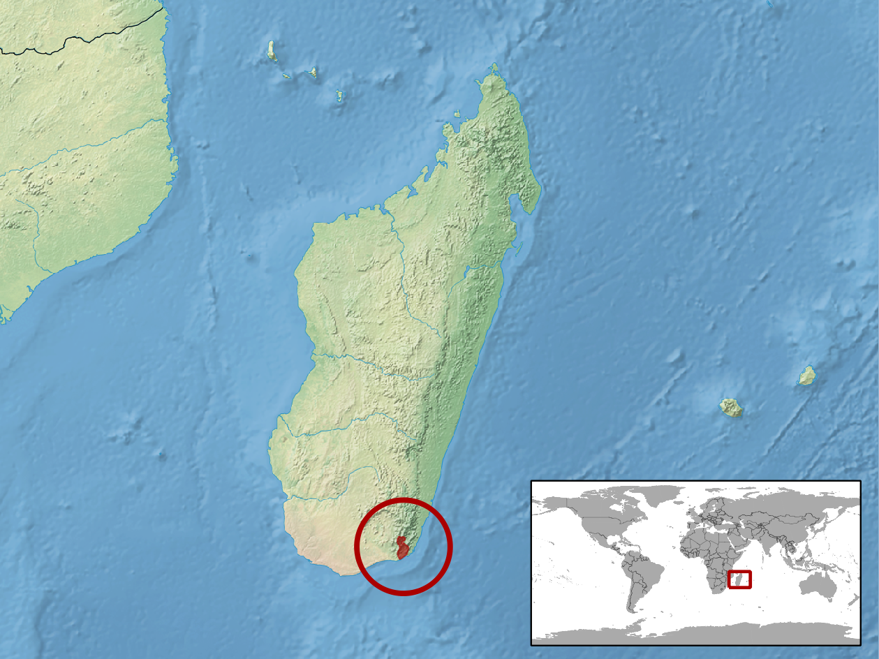 geographic distribution of Paragehyra gabriellae (Native: Madagascar)